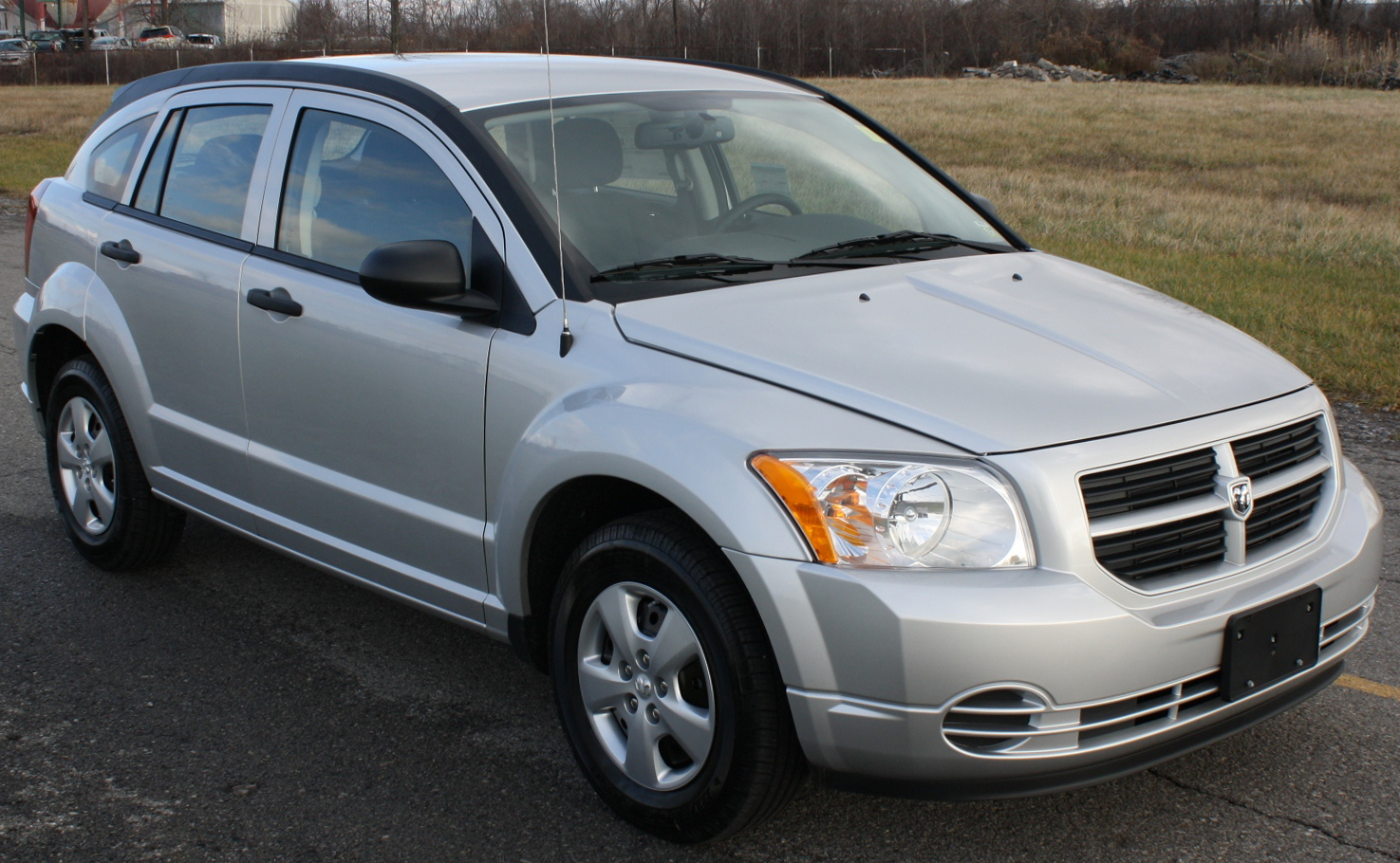 2011 Dodge Caliber photographed in USA.